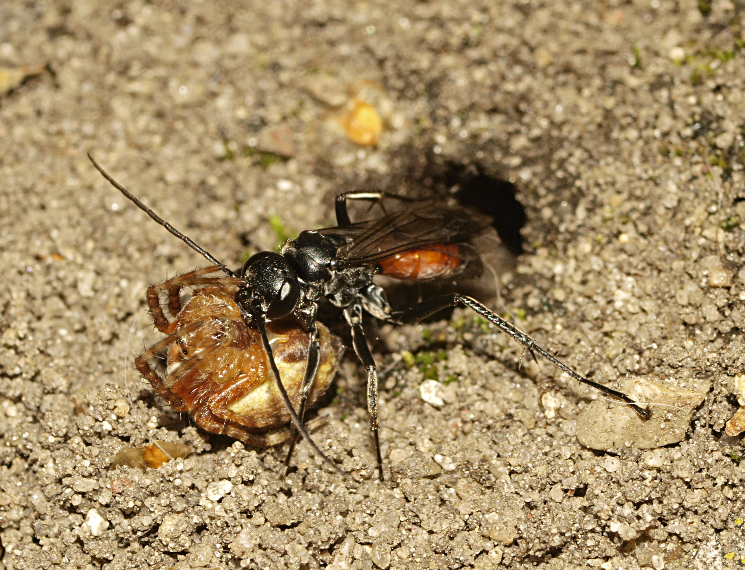 A spider wasp (Pompilidae) dragging its prey down into it's nest. This particular species only preys on orb-weavers. En vejhveps hun slæber sit bytte - en Korsedderkop - ned i sit redehul. Denne art fanger udelukkende hjulspindere.